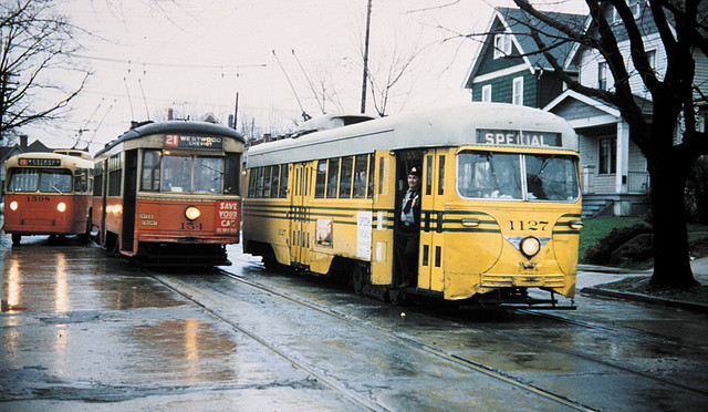 One week before the end of streetcar service in Cincinnati, PCC car 1127 and standard car 154 pose for a photo with then-new trolleybus 1508, eastbound on Montana Avenue just east of Glenmore Avenue. The PCC car was on a private excursion.